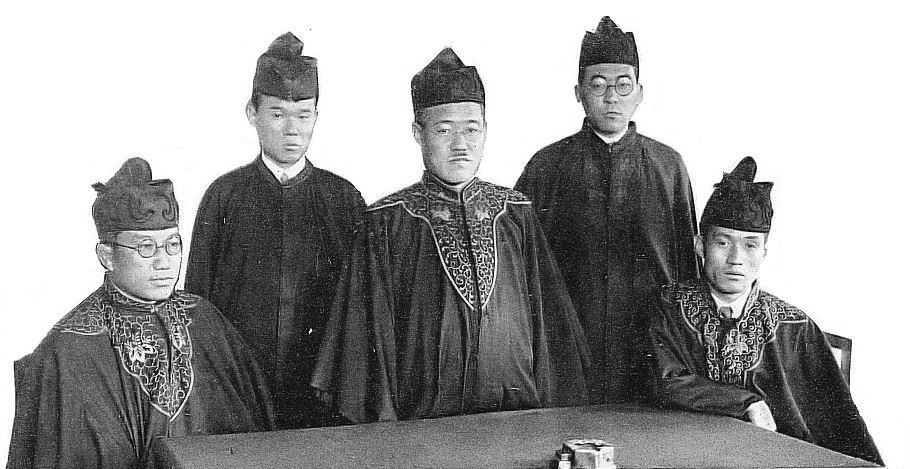 Japanese judges in 1930s